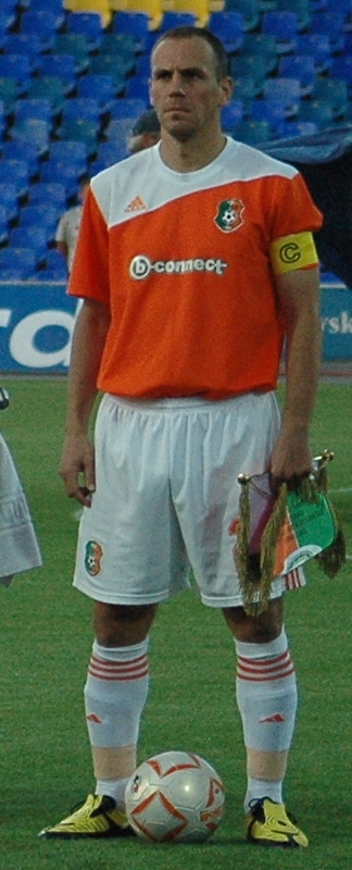 Radostin Kishishev Litex Lovech players